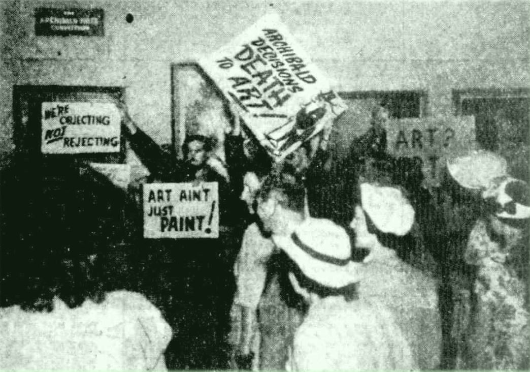 Placards In Art Gallery of New South Wales. Students Protest Over Archibald Award, Januar 1953.